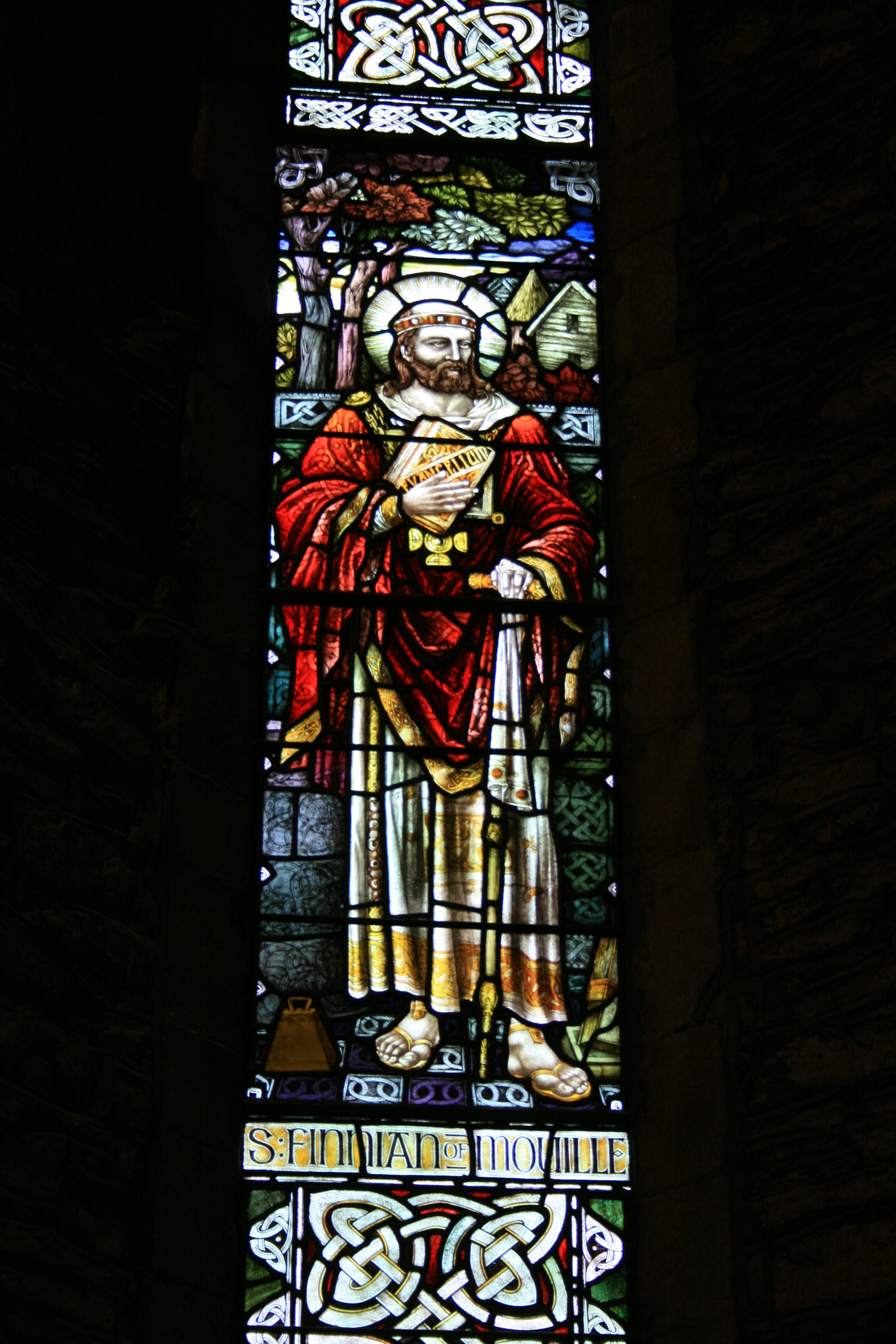 San Finnian, St. Brigid's Cathedral, Kildare, Ireland